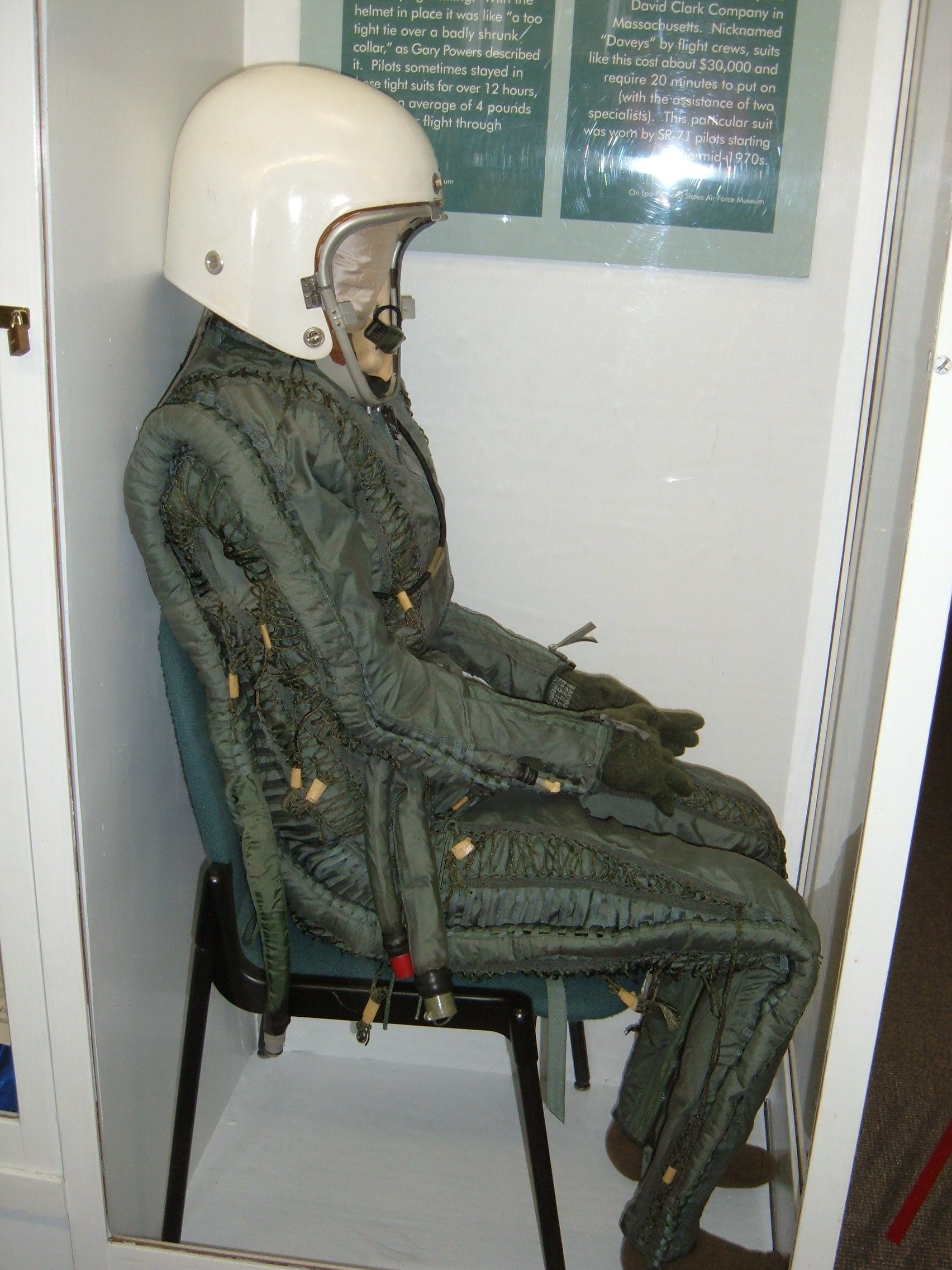 Modified MC-3 pressure suit and MA-1 helmet, ca. 1958, used by U-2 pilots. On display at the Pacific Coast Air Museum in Santa Rosa, California.